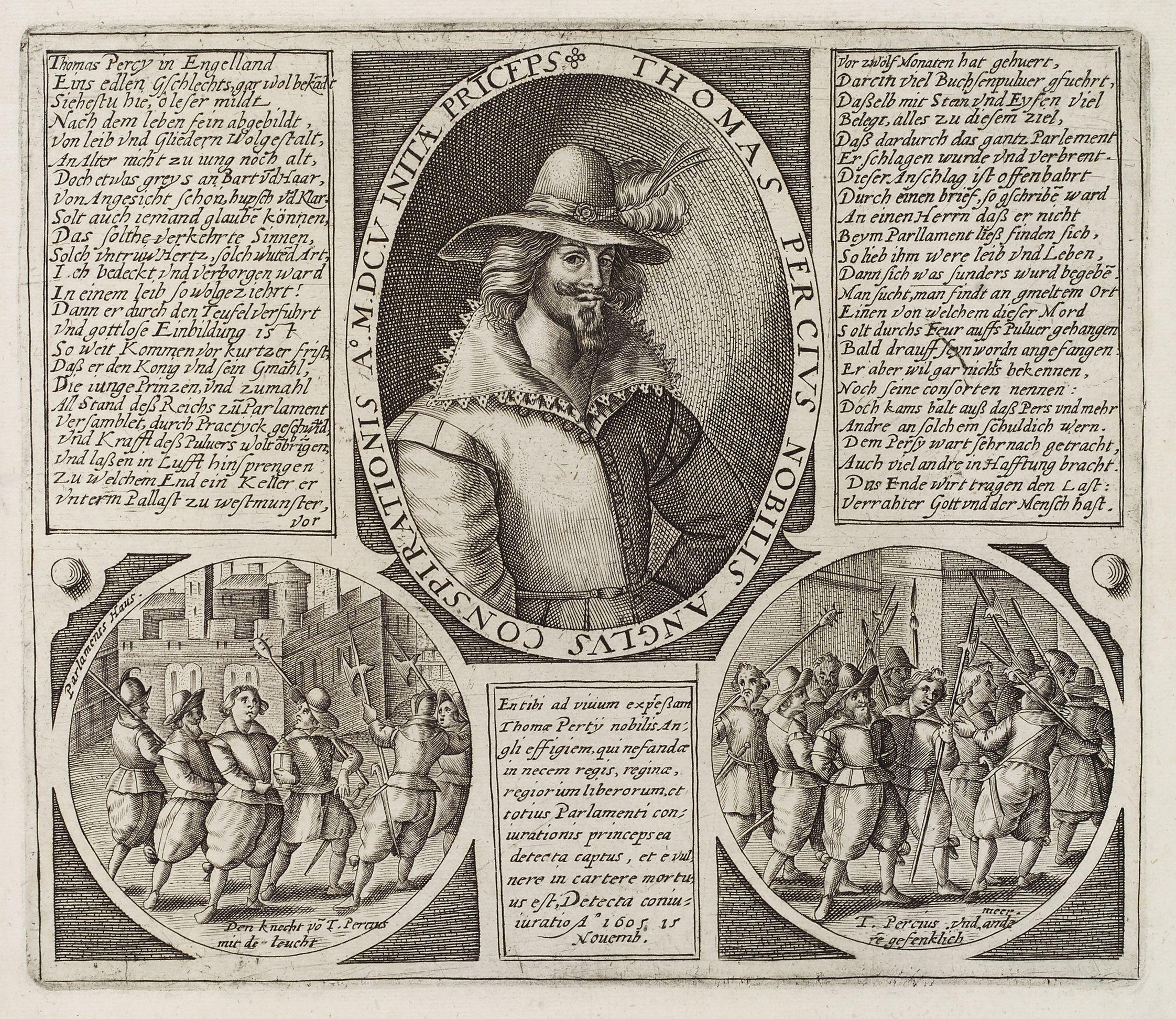 Thomas Percy, by Abraham Hogenberg, given to the National Portrait Gallery, London in 1916. All images in this batch are listed as "unknown author" by the NPG, who is diligent in researching authors, and was donated to the NPG before 1939 according to their website.